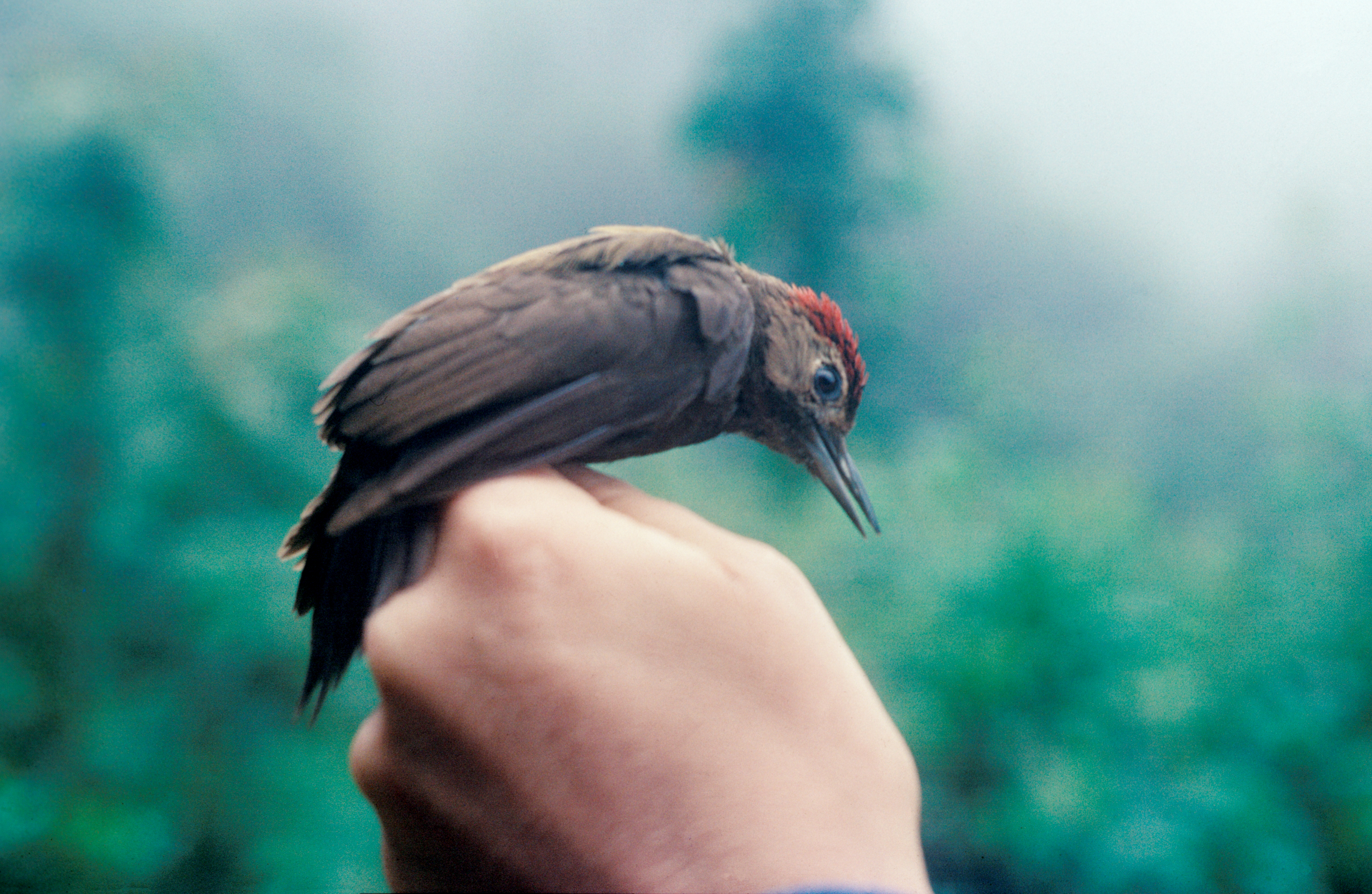 A male Smoky-brown_Woodpecker_(Veniliornis_fumigatus). Picture from the NBII Image Gallery.